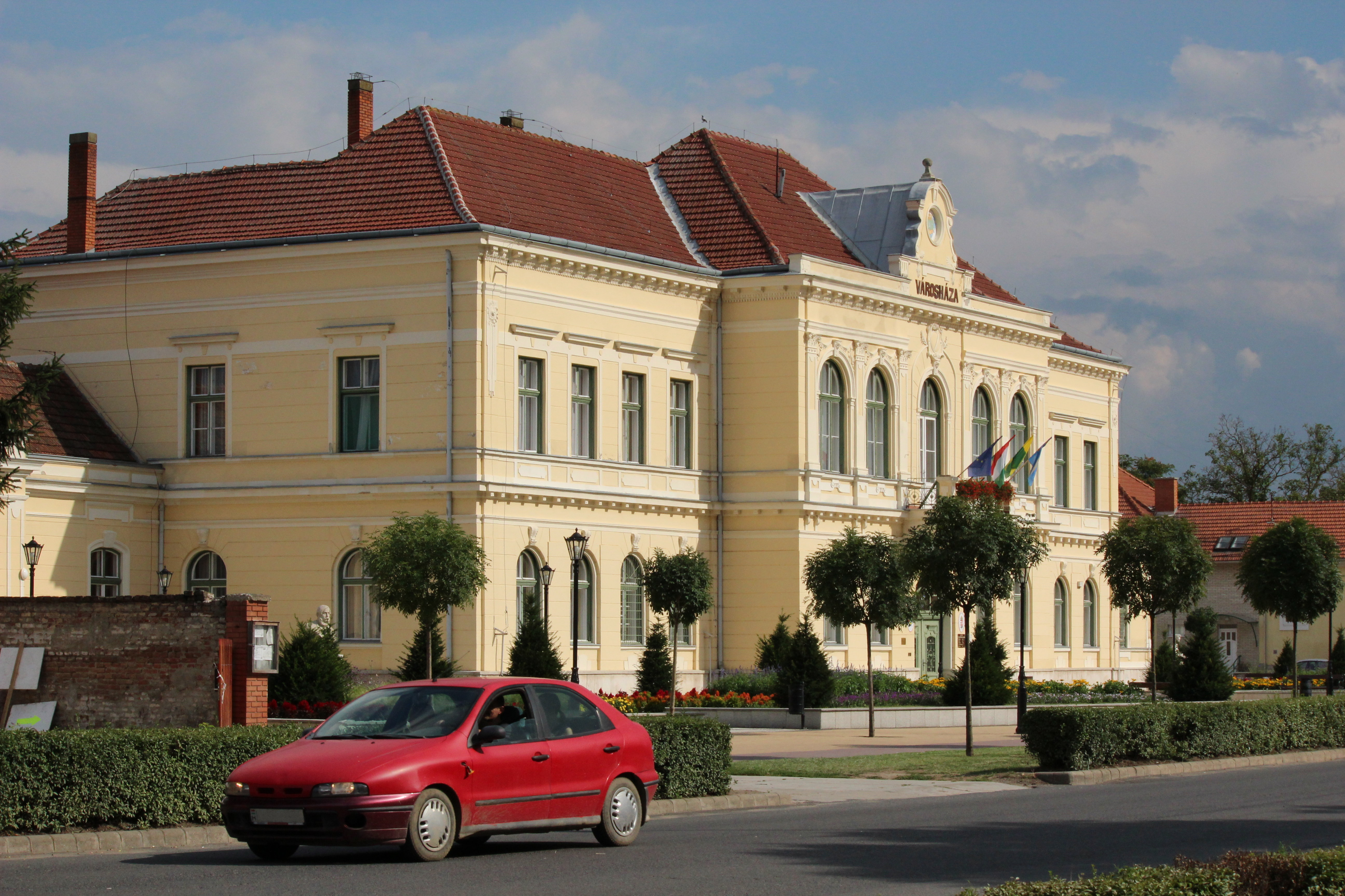 Town Hall(Vésztő, Hungary).